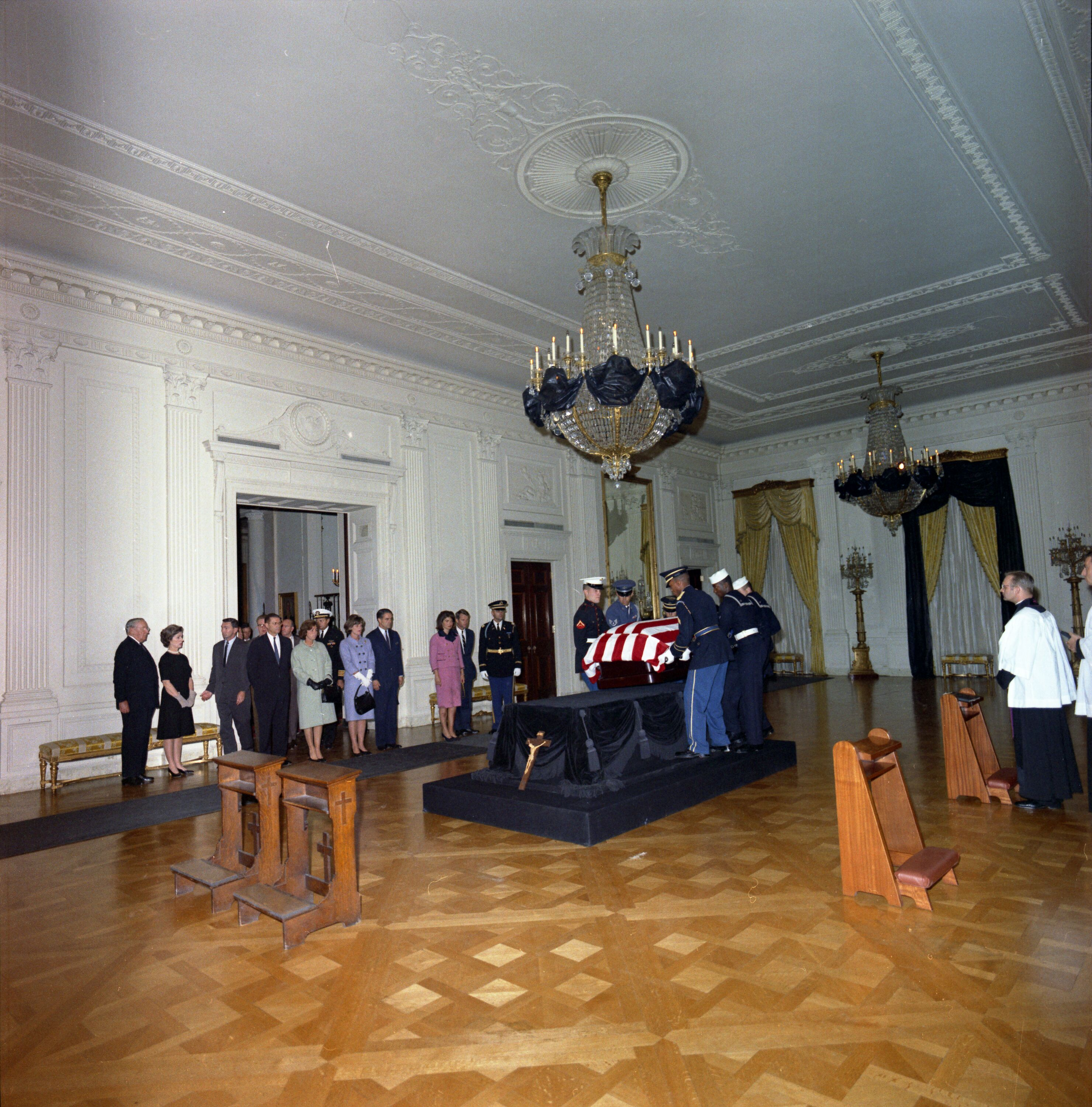 U.S. armed forces honor guard places the casket bearing the body of slain President John F. Kennedy on the Lincoln Catafalque in the East Room of the White House at about 4:40 A.M. on November 23, 1963. Those watching include First Lady Jacqueline Kennedy (in pink near the door); Hugh Auchincloss (Mrs. Kennedy's step-father); Janet Auchincloss (Mrs. Kennedy's mother); Special Assistant to the President Kenneth O'Donnell; Special Assistant to the President Lawrence O'Brien; Secretary of Defense Robert McNamara; Naval Aide to the President Tazewell Shepard, Jr.; Jean Kennedy Smith (President Kennedy's sister); R. Sargent Shriver (President Kennedy's brother-inlaw); Attorney General Robert Kennedy; and unidentified others.